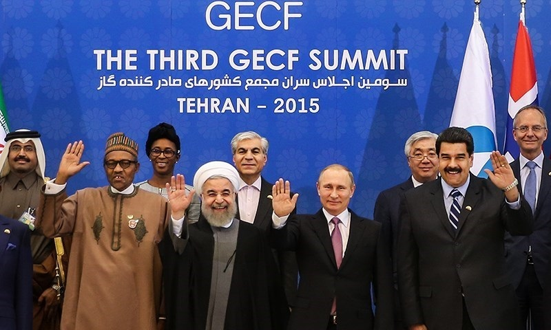 Third GECF summit, Tehran, Iran